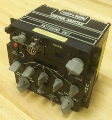 ARC-164 Control Panel (C-11719). Picture taken at Moffett Federal Airfield by Richard C. Wysong II in early 2003. Uploaded by the same in 2007. Declared public domain by author (self).